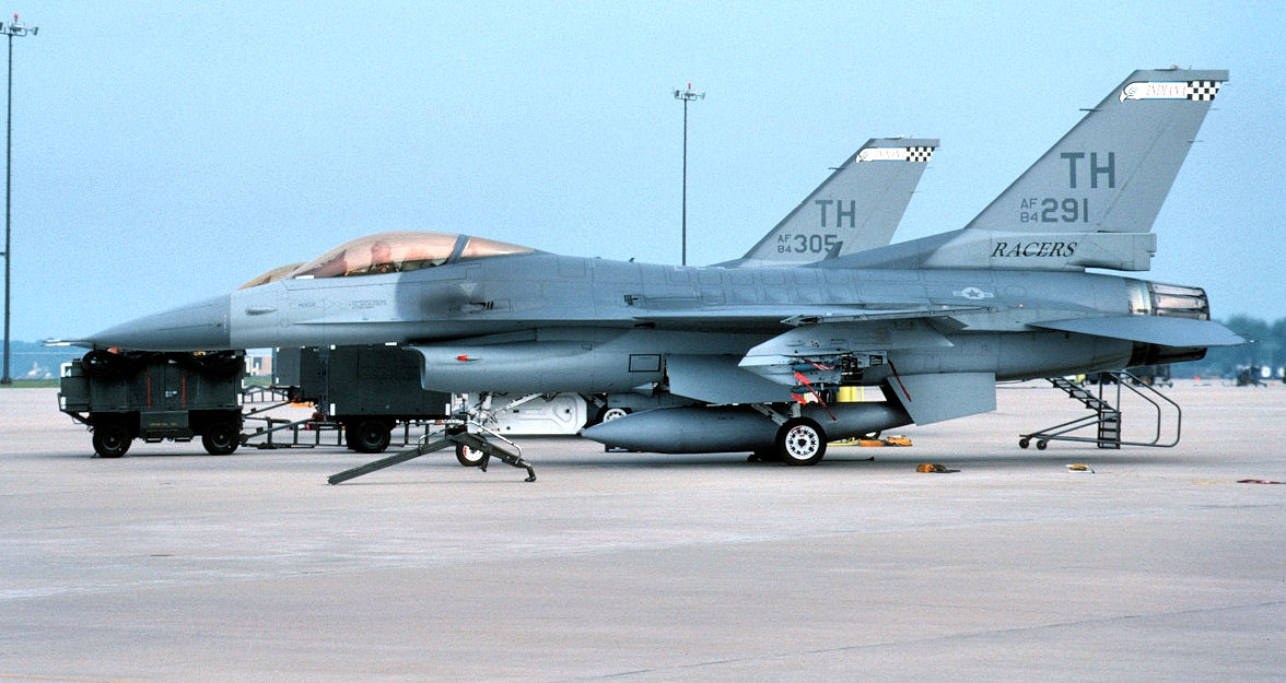 113th Tactical Fighter Squadron - General Dynamics F-16C Block 25E Fighting Falcon 84-1291